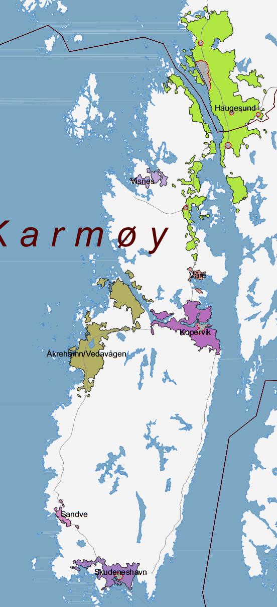 Urban areas of Karmøy 2005